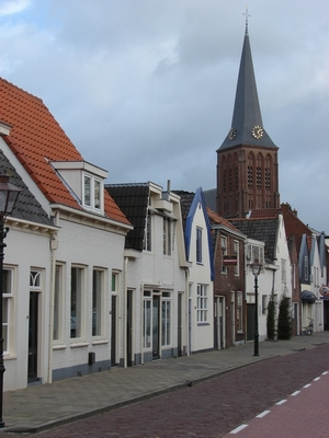 heart church maarssen